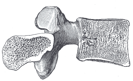 Sagittal section of a lumbar vertebra.